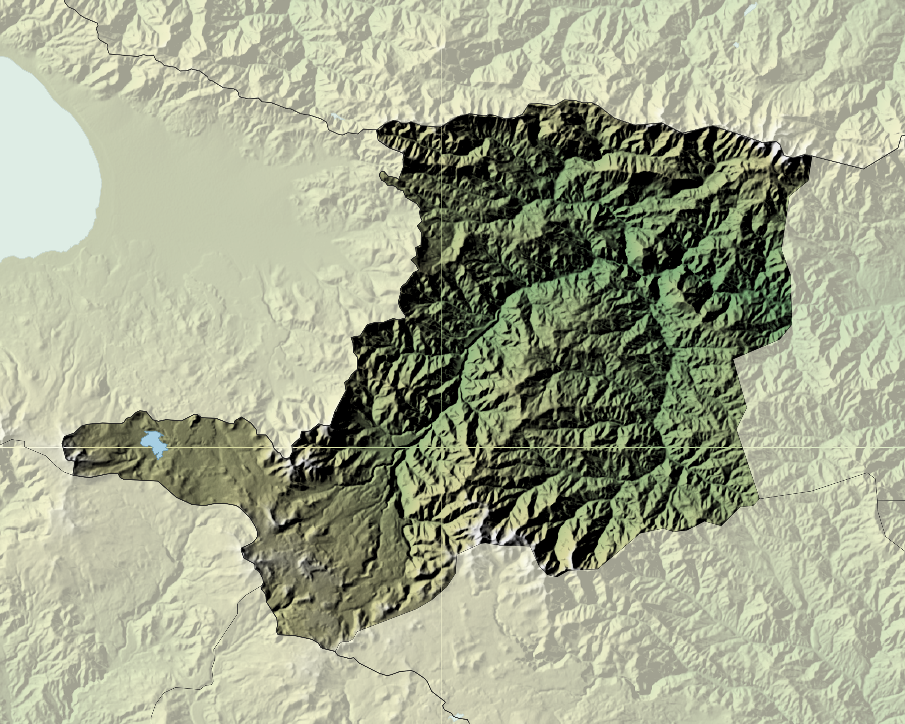 Hillshaded map of Karvachar region of Artsakh Republic